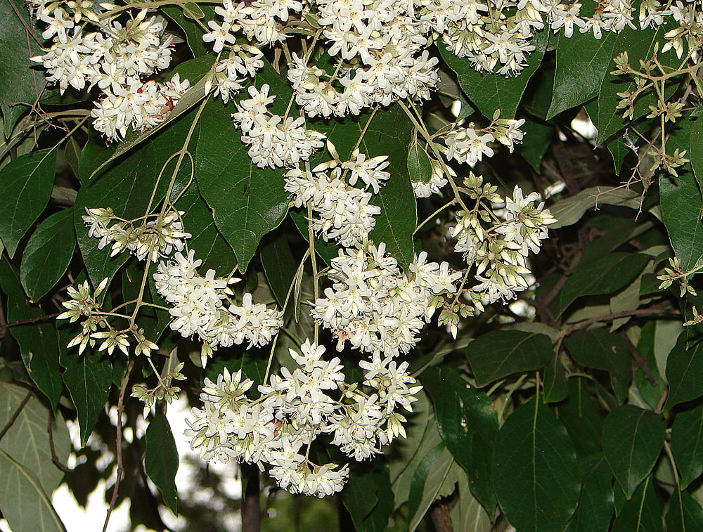 A tree known as Peteribi and as louro-pardo, and appreciated for its wood and oils. Native from Bolivia and northern Argentina to eastern Brazil. Photo from near Salta, Argentina.